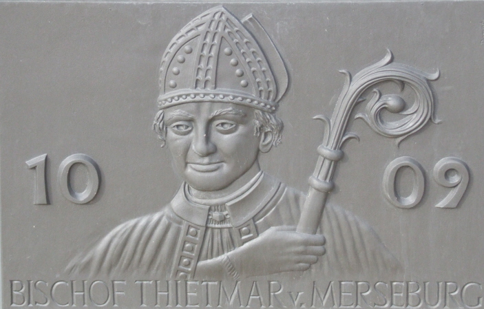 Plaque on city fountain in front of the Church of St. Stephan in Tangermünde, Germany; Caption: Thietmar, Bishop of Merseburg